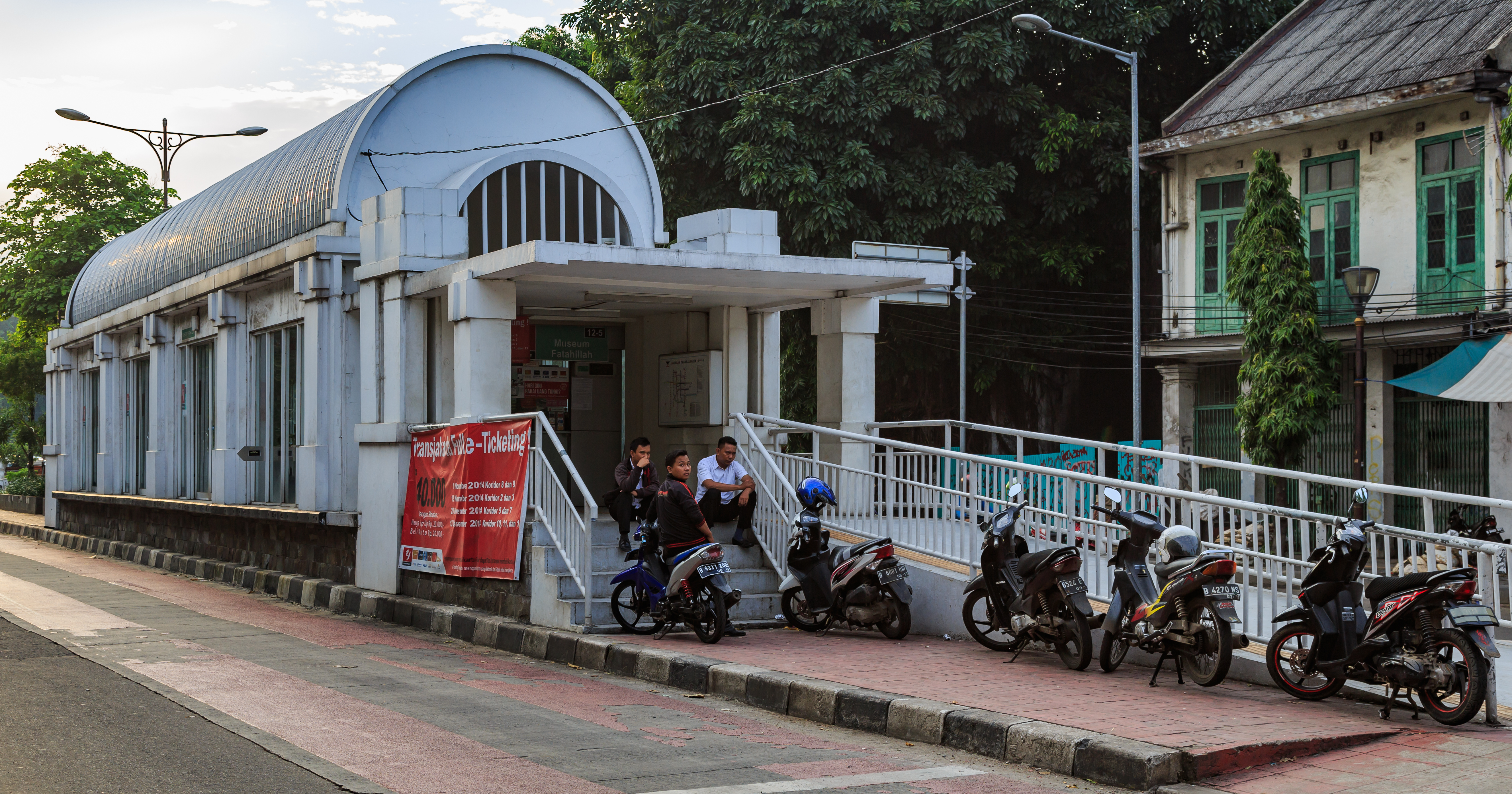 Jakarta, Indonesia: Bus stop "Museum Fatahillah".